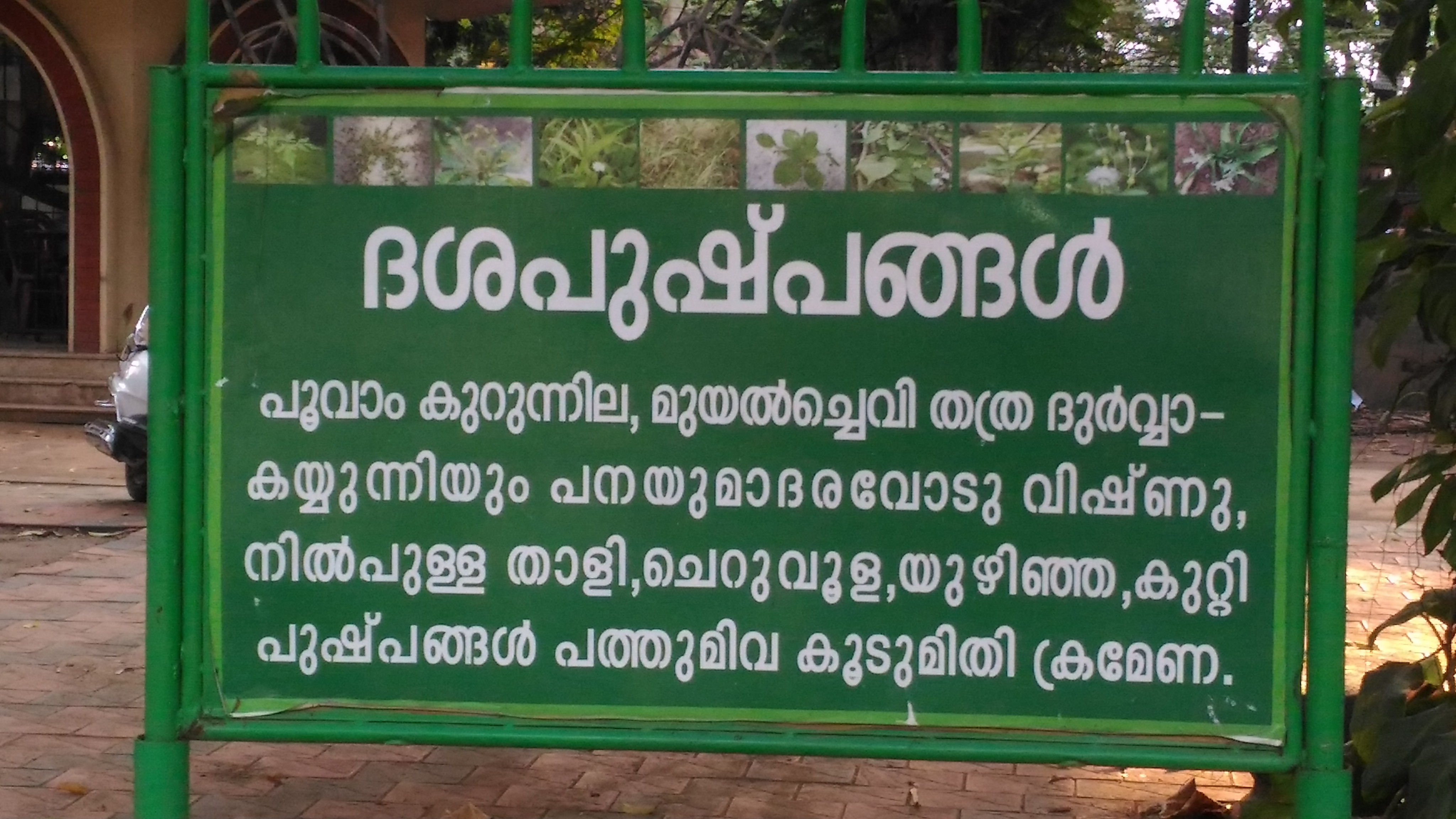 A board in Changapuzha Park, Eranakulam showing the names of Dasapushpangal